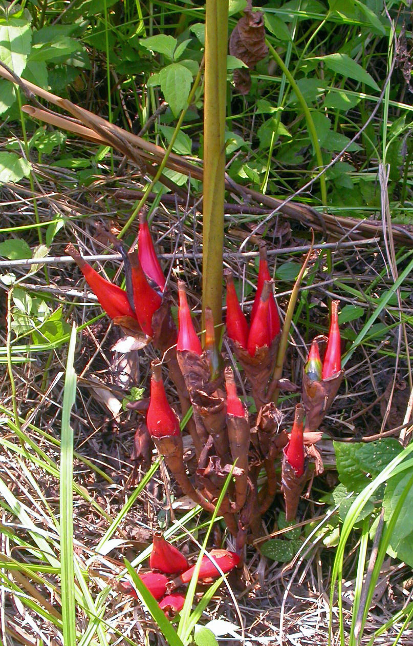 Plant bearing fruit near Bandundu town, D.R. Congo